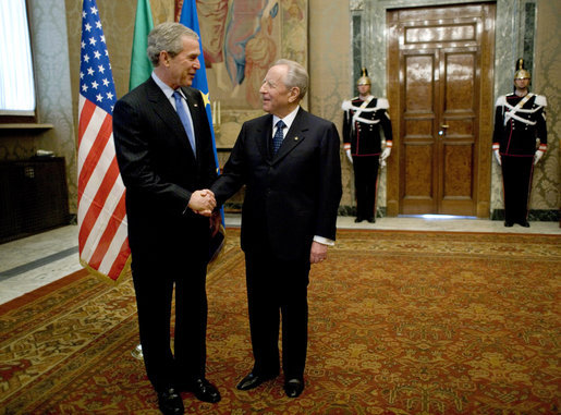 George W. Bush meeting Italian President Carlo Azeglio Ciampi